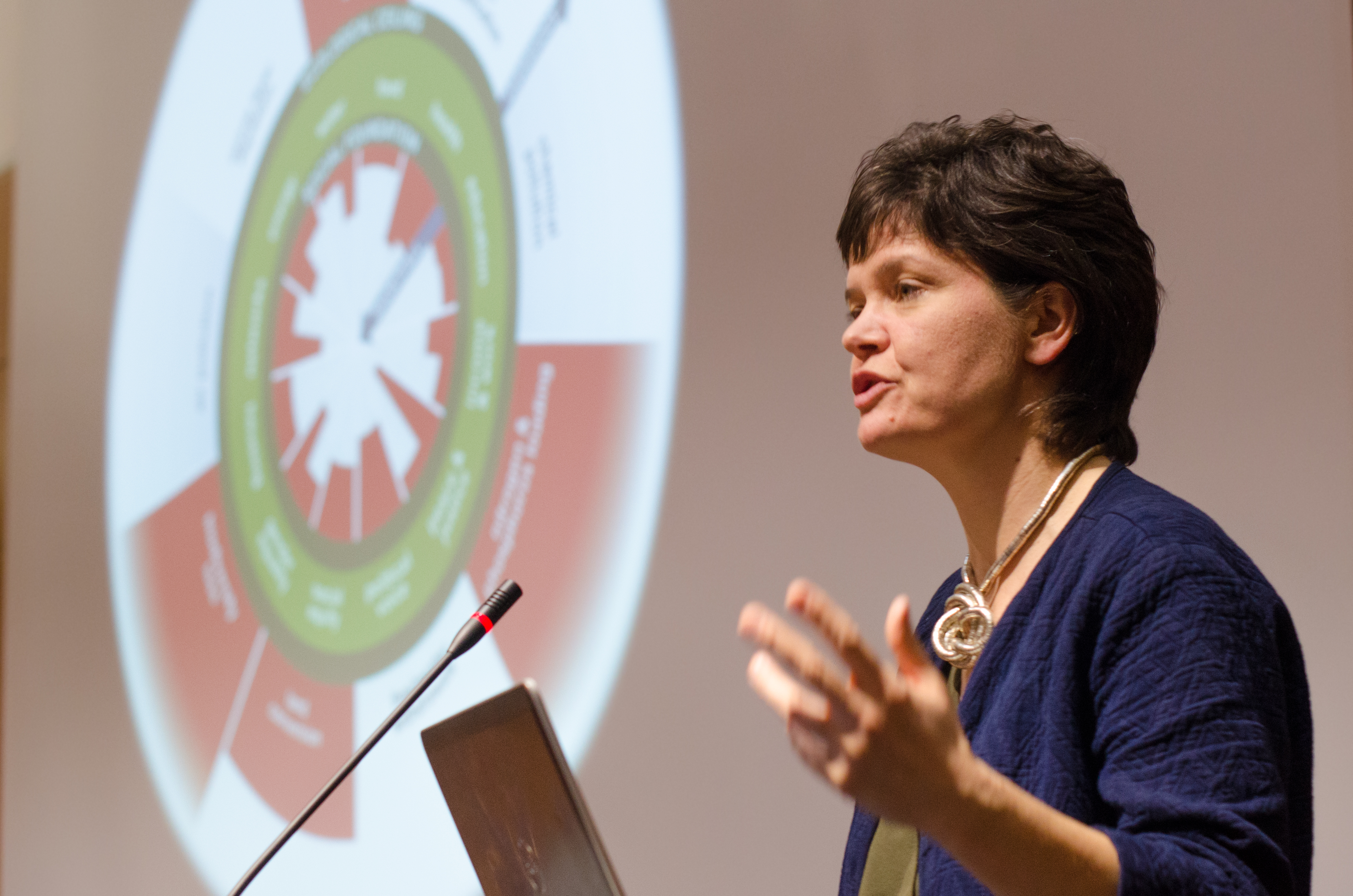 Kate Raworth, at a lunch session with Ian Gough.